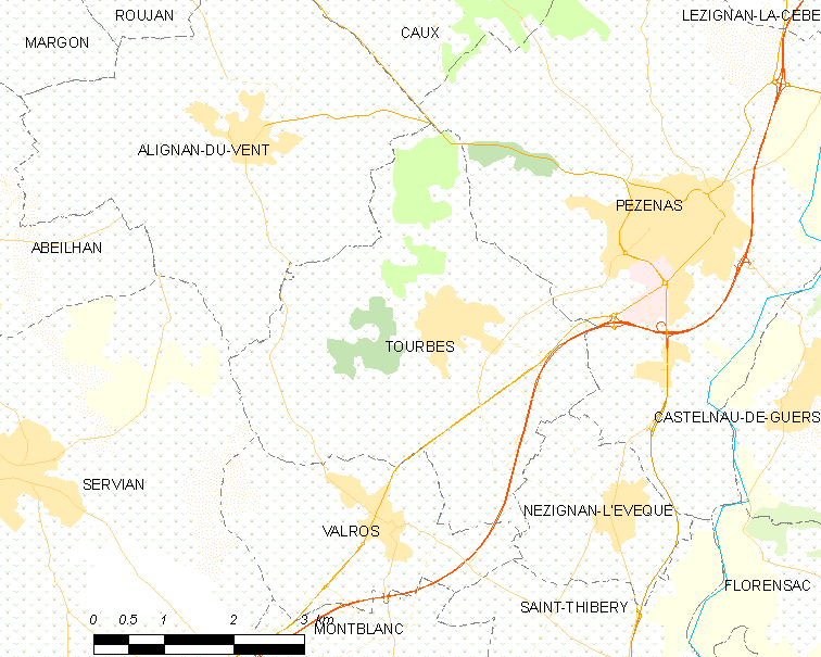 Map commune FR insee code 34311.png - Tourbes